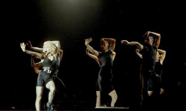 Photo taken during one of the concerts in 1990